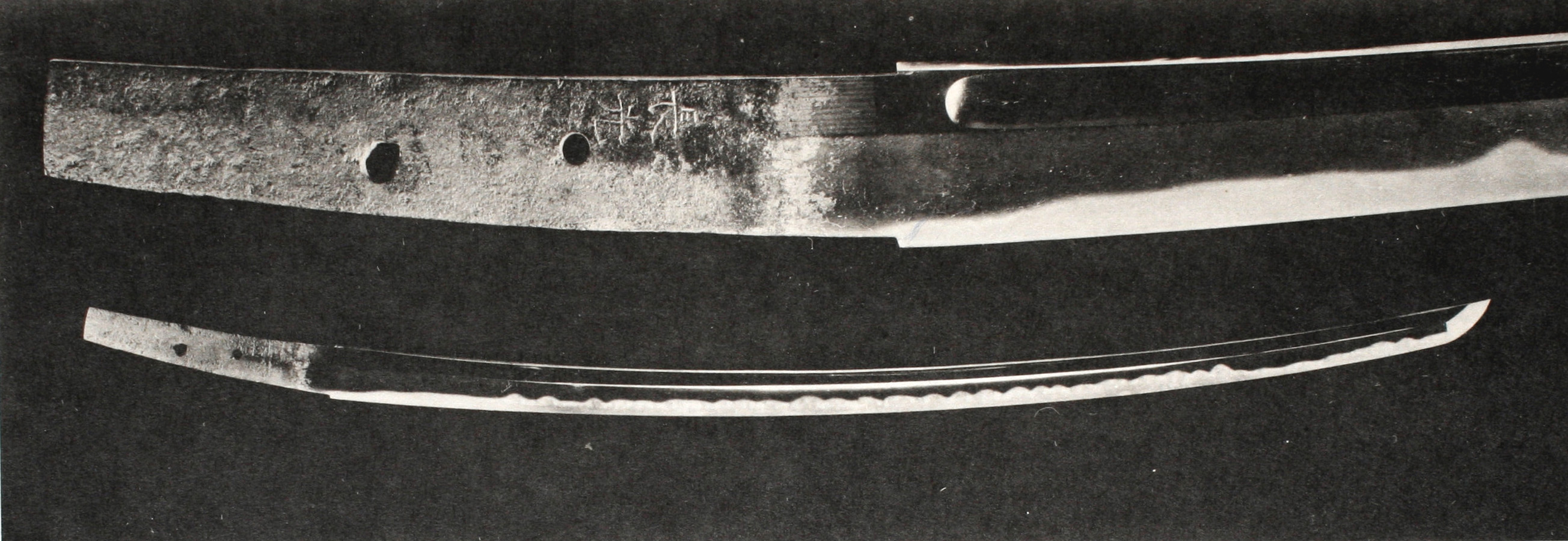 Tachi or Daihannya Nagamitsu by Nagamitsu (Junkei Nagamitsu). The name ("Daihannya") refers to the Daihannya sutra. The value of the sword during the Muromachi period, 600 kan, was associated with the sutra's 600 volumes; said to have belonged to the Ashikaga clan, later in the possession of Oda Nobunaga who gave it to Tokugawa Ieyasu at the Battle of Anegawa, who then gave it to Okudaira Nobumasa at the Battle of Nagashino; curvature: 2.9 cm (1.1 in) Kamakura period, 13th century, around Kench? to Sh?? eras (1249?1293) 73.6 cm (29.0 in) Tokyo National Museum, Tokyo